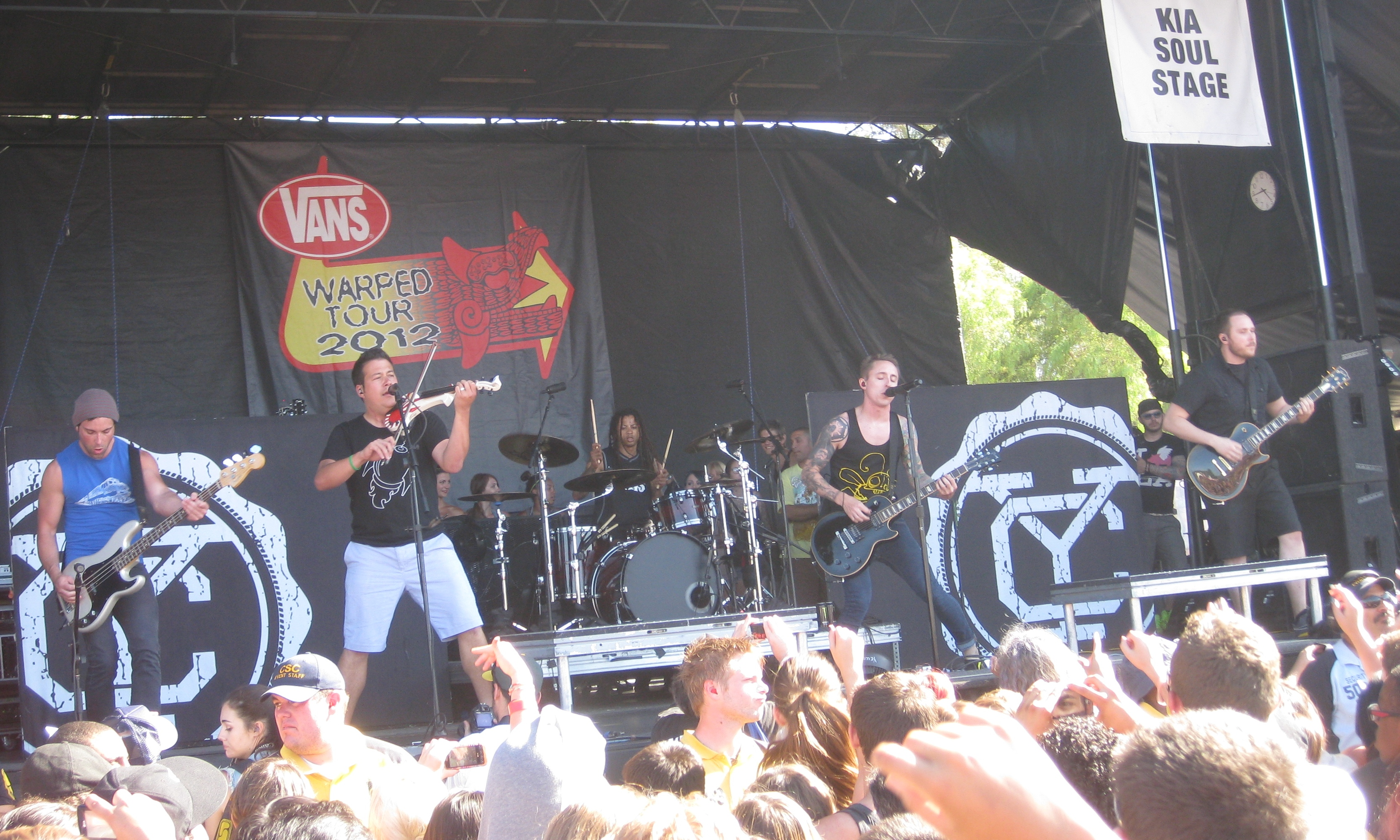 Yellowcard performing on the Warped Tour in Chula Vista, California on June 27, 2012. Left to right: bassist Josh Portman, violinist Sean Mackin, drummer Longineu Parsons, singer/guitarist Ryan Key, and guitarist Ryan Mendez.